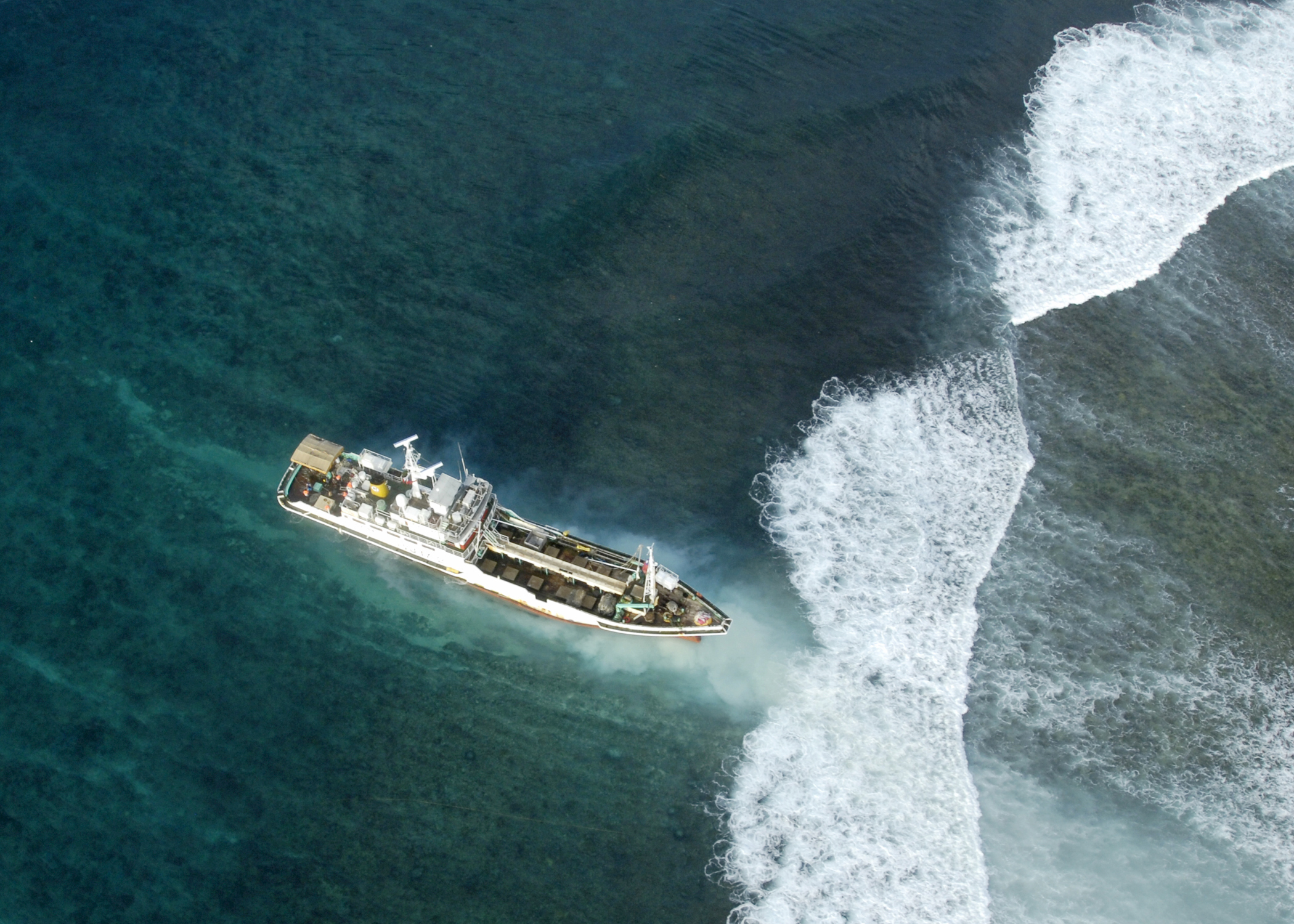 SOLOMON ISLANDS (April 13, 2007) – A Taiwanese fishing vessel is shown stuck on a reef in the waters around the Solomon Islands, after her crew was rescued the night before by a U.S. Navy HH-60H Seahawk assigned to the Warhawks of Helicopter Anti-Submarine Squadron (HS) 10, Expeditionary Sea Command Unit (ESCU) 1, from Naval Air Station (NAS) North Island, San Diego. ESCU-1 rescued 15 Red Cross and medical staff, and two injured tsunami victims and transported them safely to the town of Gizo, Solomon Islands. A third critically injured crew member was also rescued by helicopter and taken to hospital in the neighboring town of Munda. ESCU-1 is on a six-month deployment aboard the Military Sealift Command (MSC) roll-on/roll-off ship USNS Stockham (T-AK 3017). On April 2, an 8.1 magnitude earthquake and resulting tsunami struck the Solomon Islands causing casualties and significant damage. USNS Stockham is one of 16 Maritime Pre-Positioning Ships belonging to the MSC Pre-Positioning Program. The U.S. Navy is responding to a specific request on the part of the U.S. ambassador to Papua New Guinea and the Solomon Islands. U.S. Navy photo by Mass Communication Specialist 2nd Class Andrew Meyers (RELEASED)